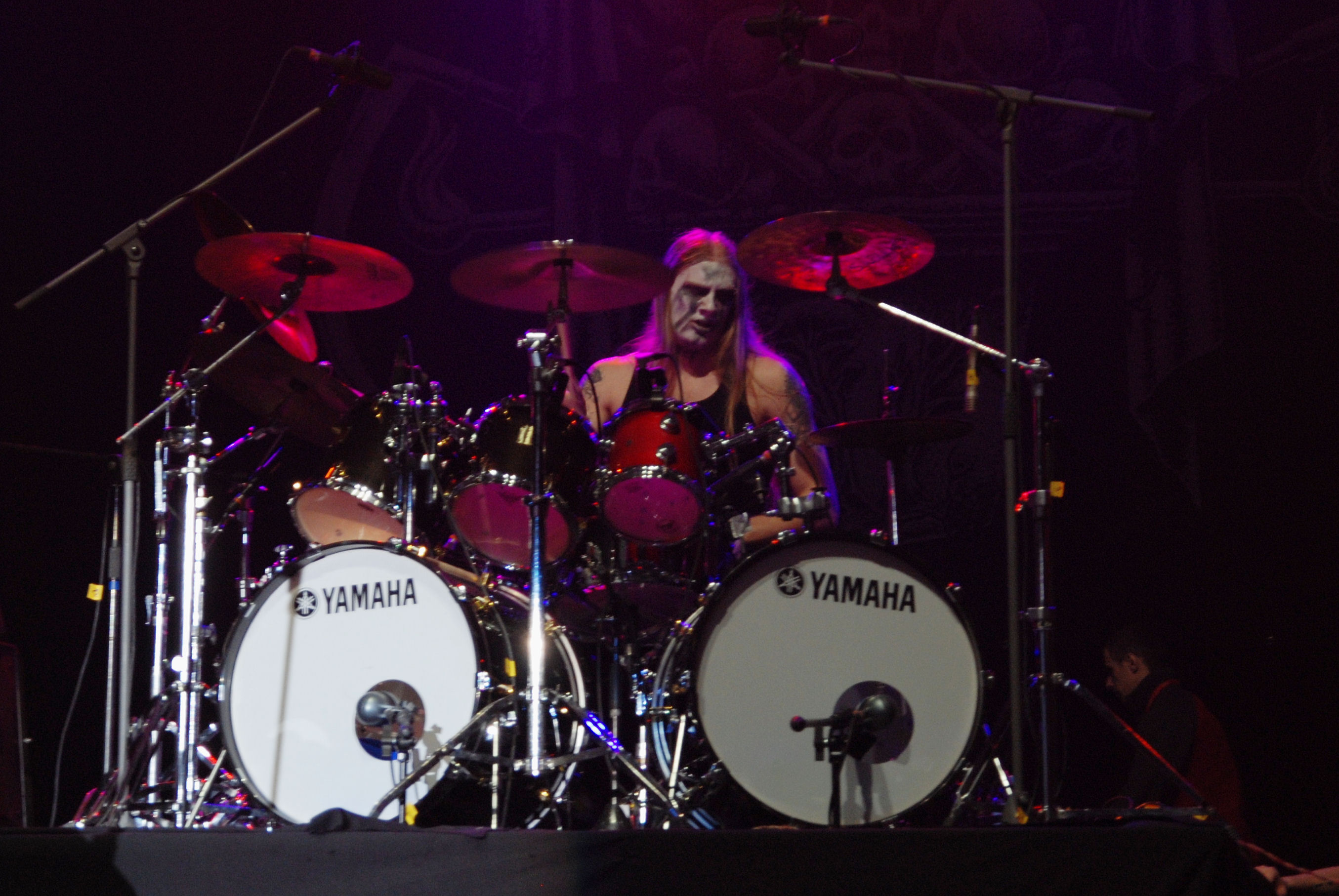 Lars Brodesson from Marduk during Metalmania 2008 festival